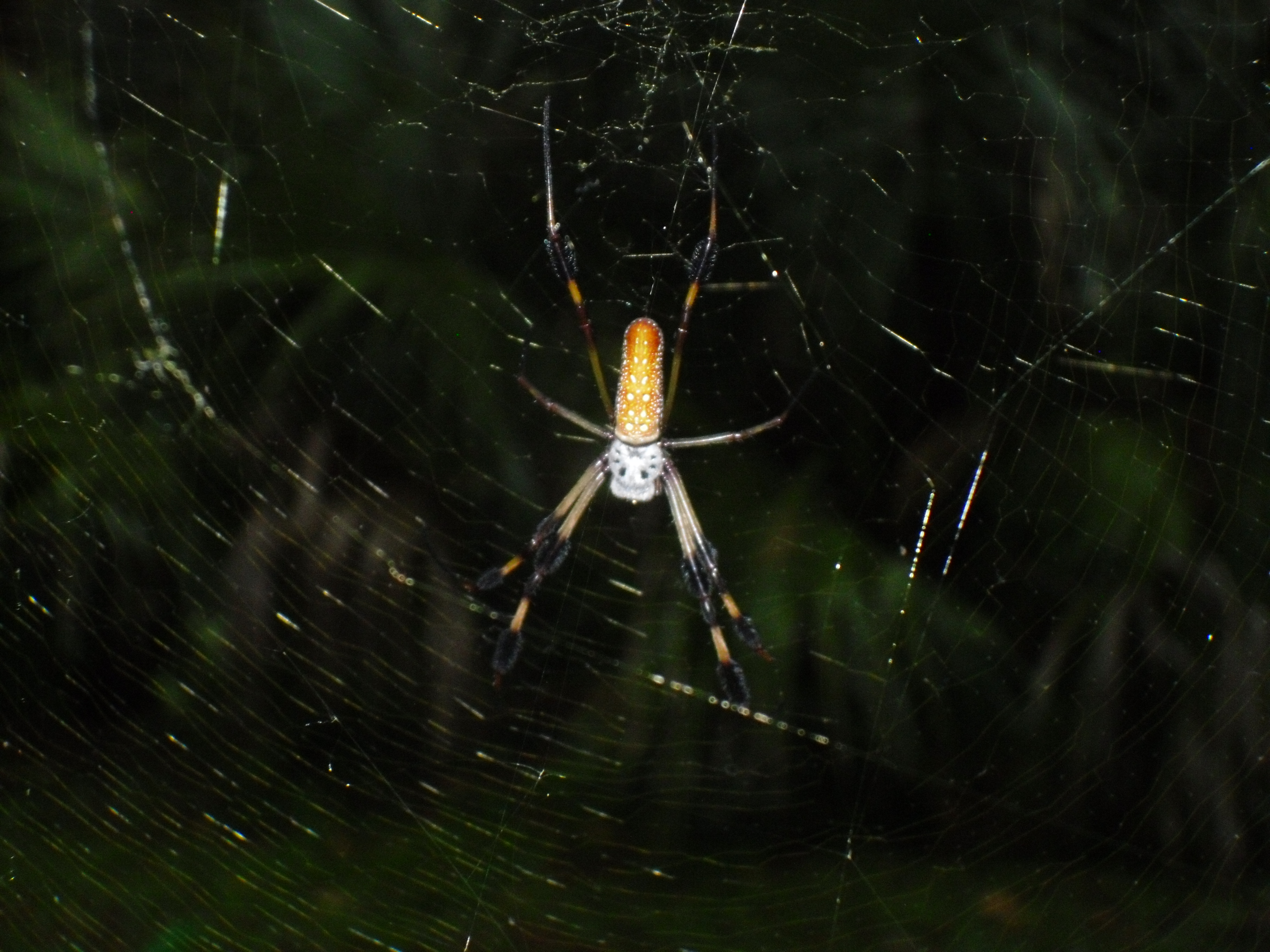 A Nephila Clavipes spider, dorsal view. Taken outside Little Hall at University of Florida. Sitting in the center of a large, beautiful, golden web.